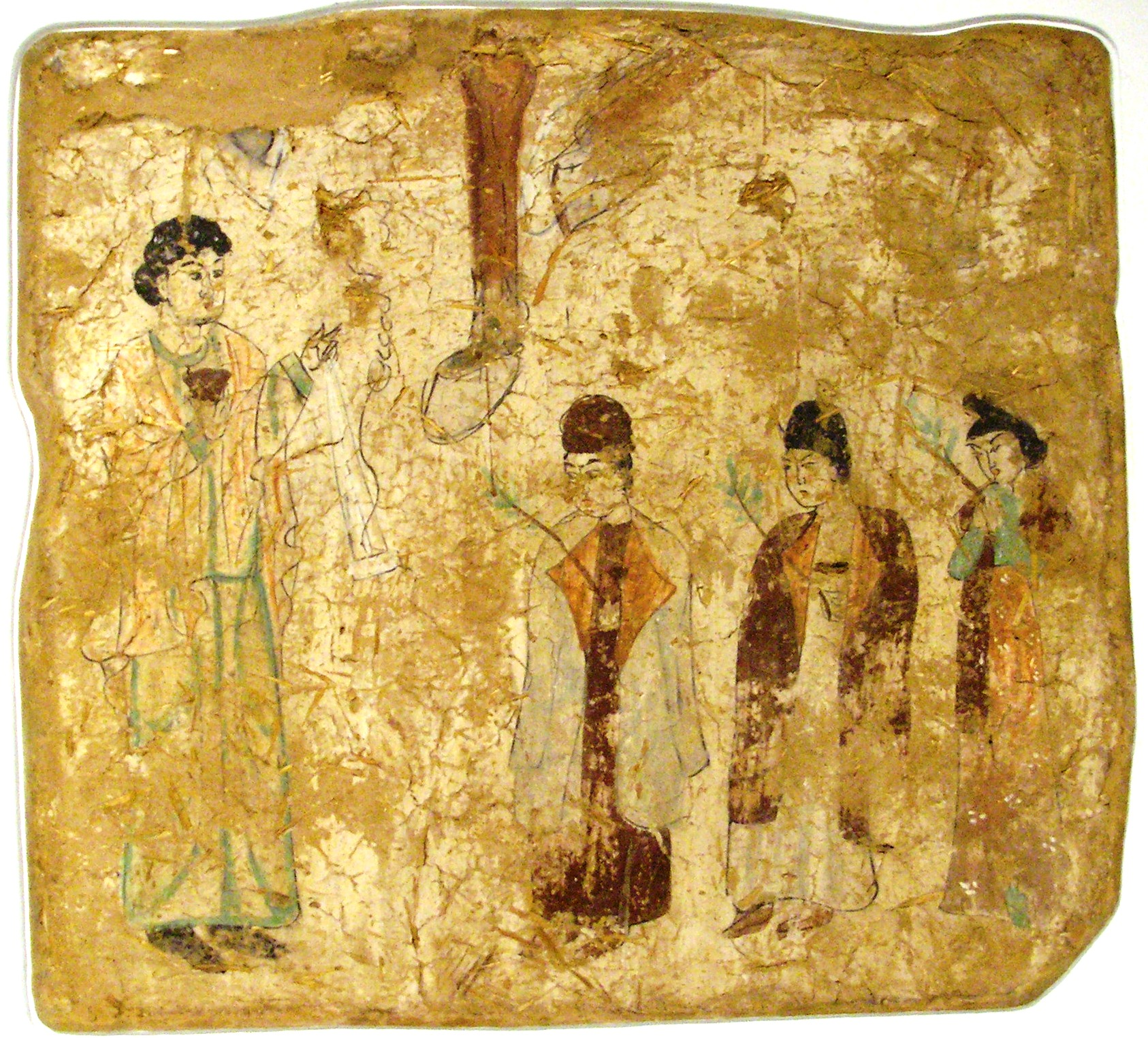 Three Magi (?) Palm Sunday (?), Khocho, Nestorian Temple, 683–770 CE. Wall painting, 61 × 67 cm. Located in the Museum für Indische Kunst, Berlin-Dahlem.